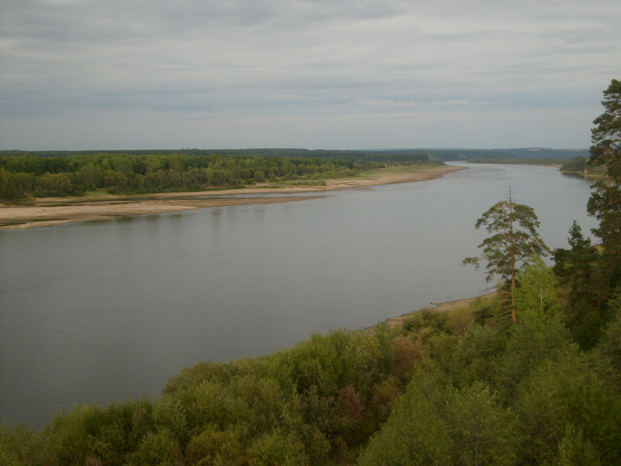 River Vyatka near the road bridge near Sovetsk (Kirov Oblast, Russia)